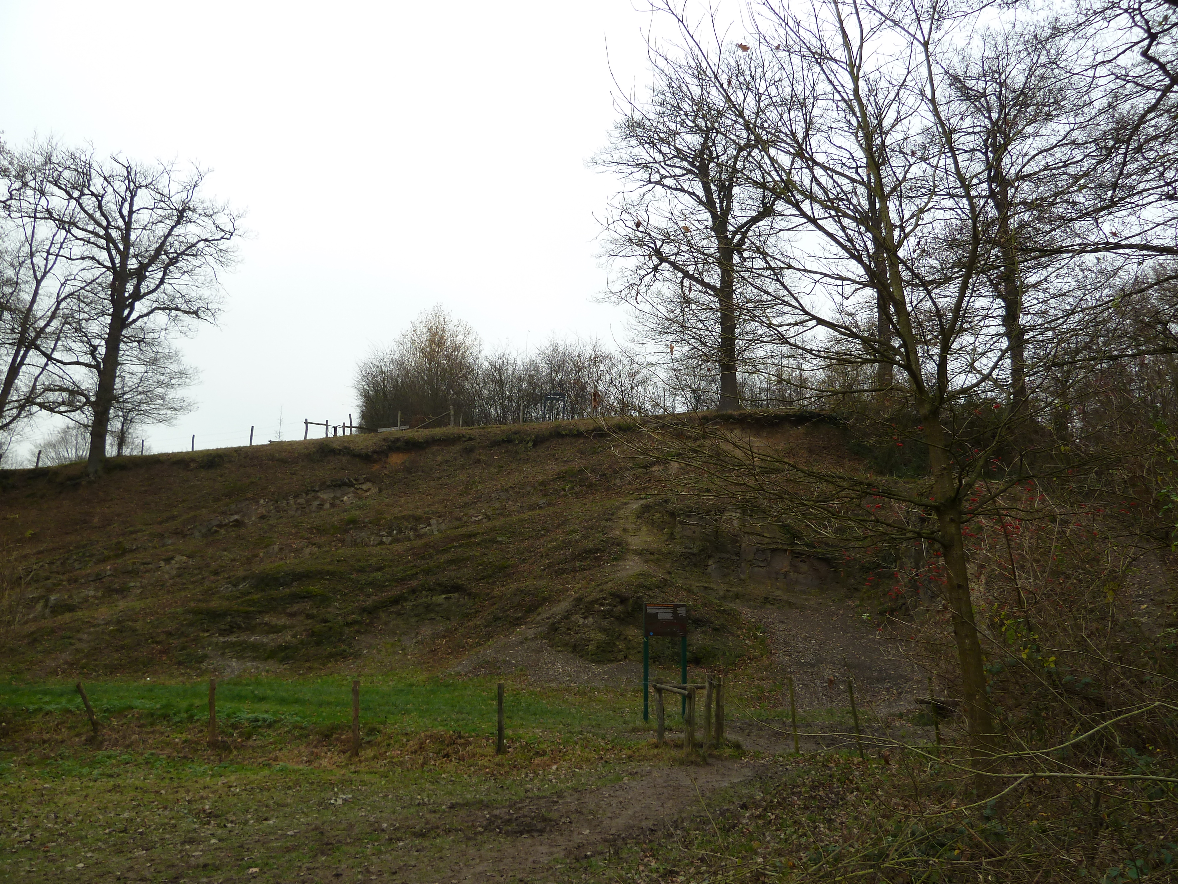 Geological monument Heimansgroeve, Vaals, Limburg, the Netherlands